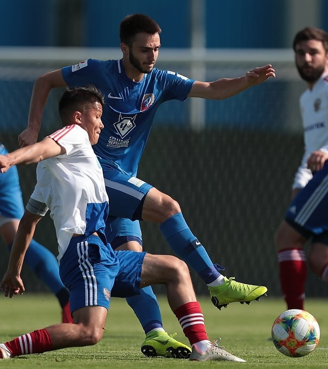 Vladislav Sarveli (in the blue shirt) with FC Chertanovo Moscow in a game against Russia national team.